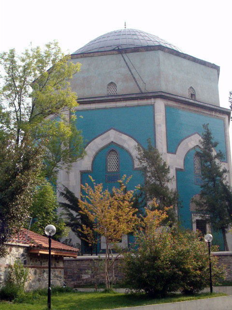 Yeşil Türbe (Green Tomb) mausoleum, Bursa, Turkey